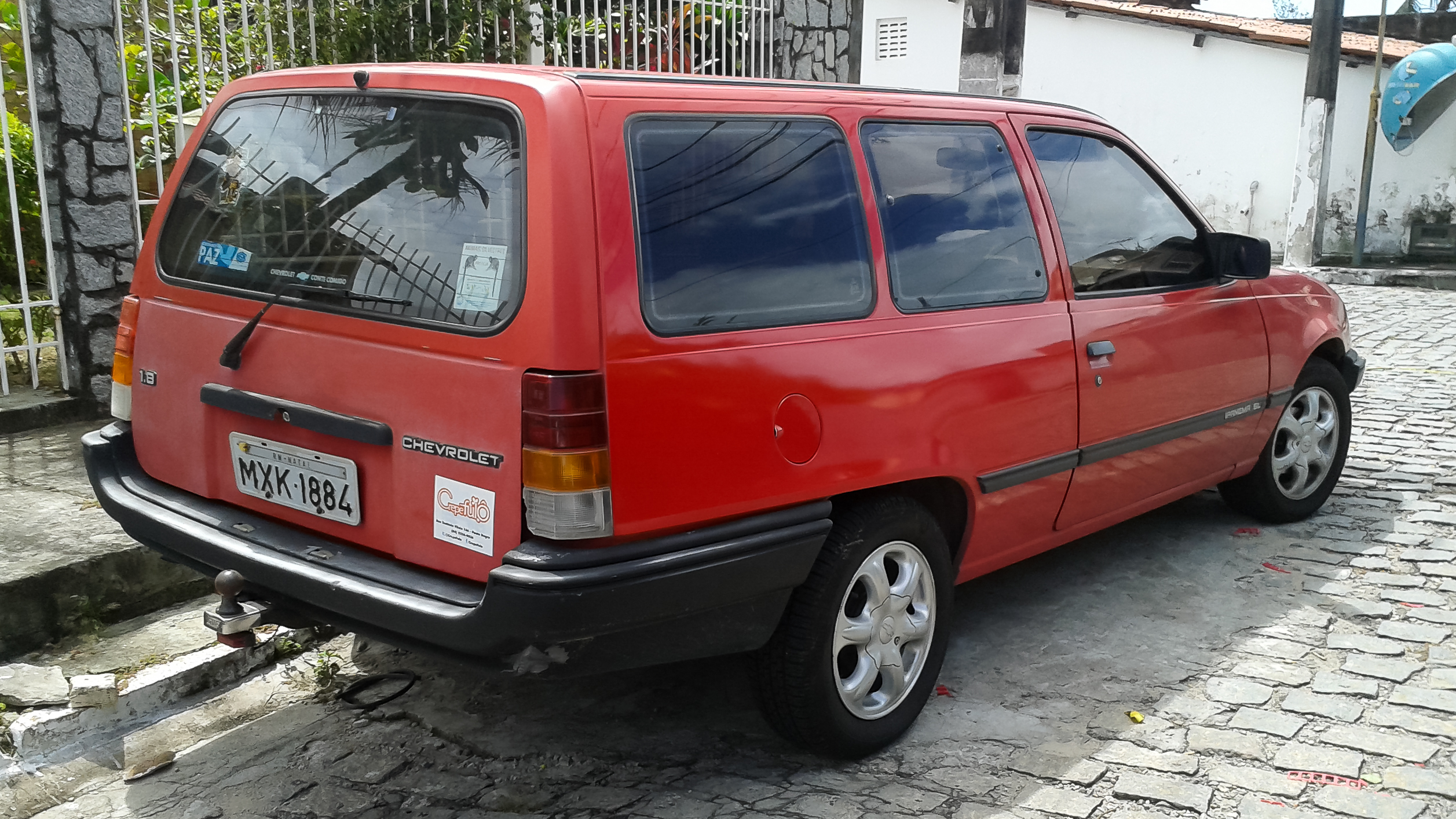 Chevrolet Ipanema SL